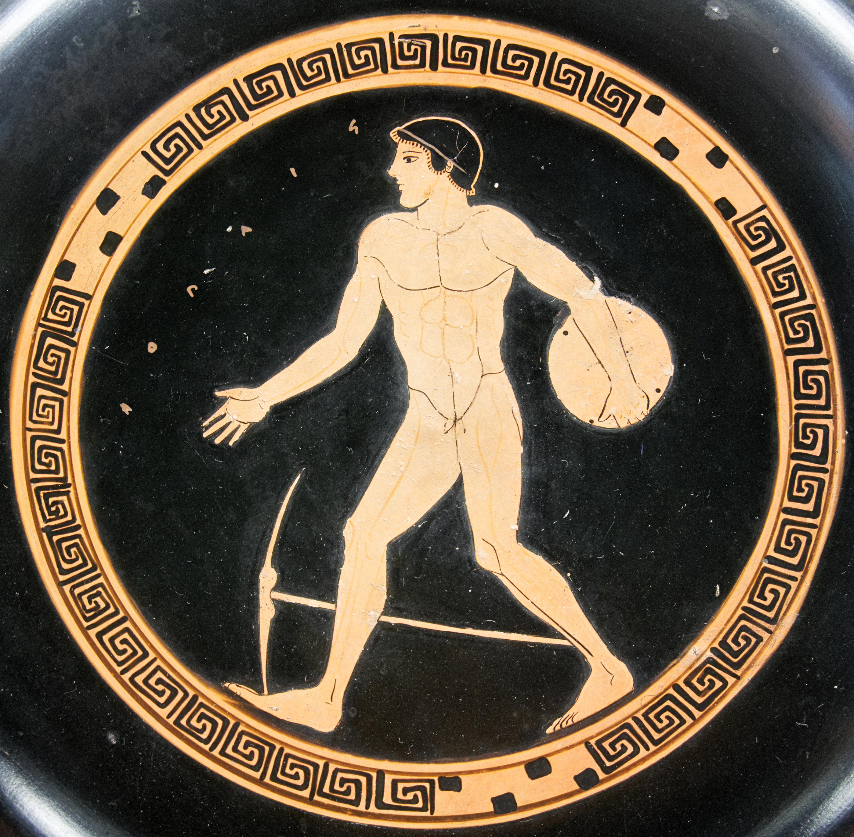 Discobolus (disc-thrower). Interior from an Attic red-figured cup, ca. 490 BC.